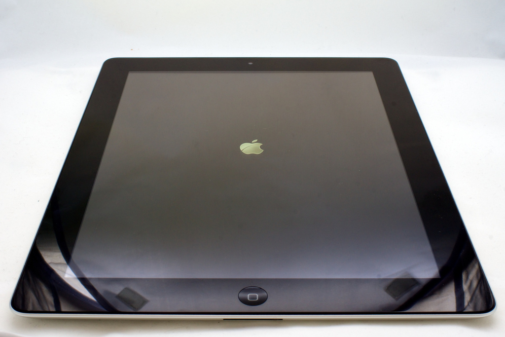 It is a photo of the iPad 3 on